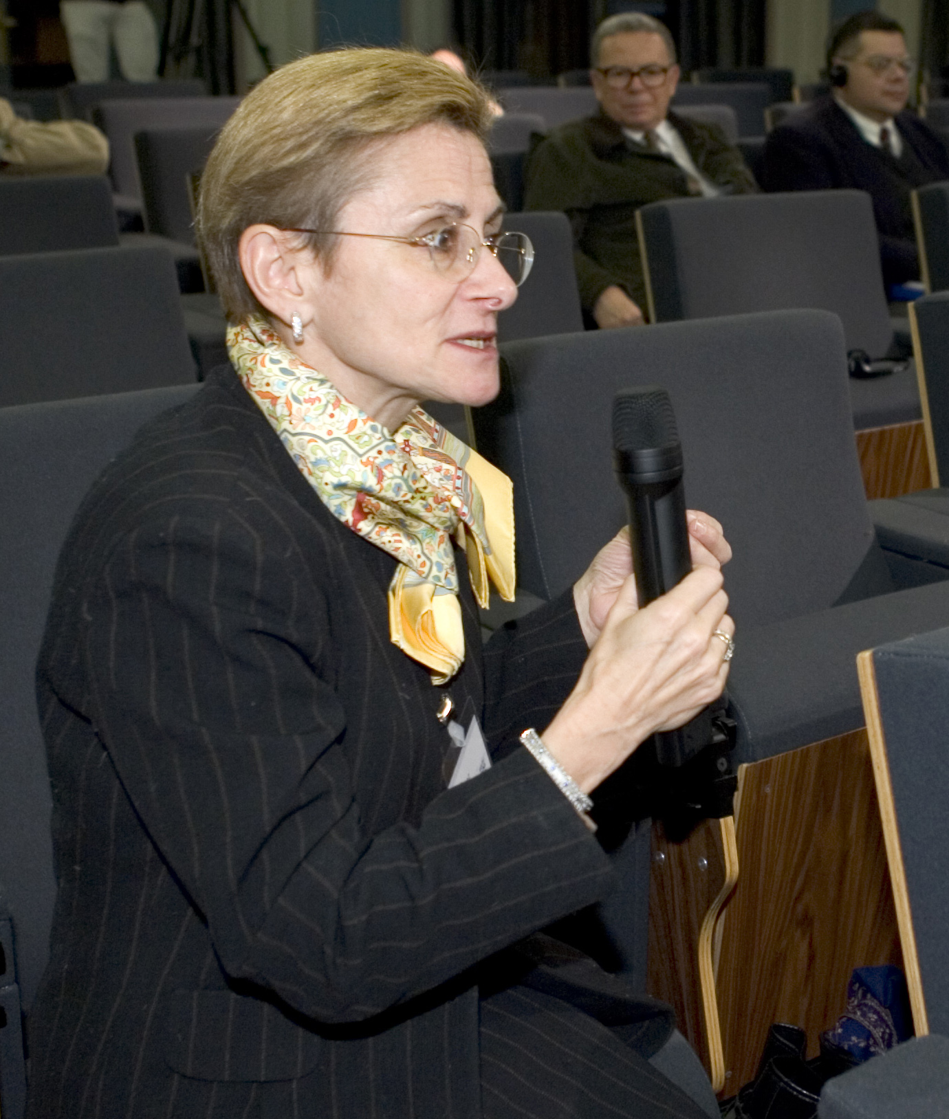 French historian Annie Lacroix-Riz at the 2005 Axis for Peace conference.